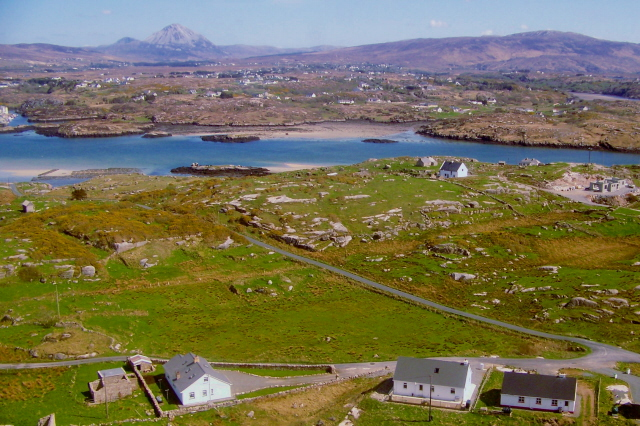 Preparing to land at Donegal Carrickfin Airport View from Aer Arann plane window is from over Rinnafarset, looking north to Atlantic Ocean inlet; hotel with beach and shipwreck; Bunbeg area south of R257 east of Bungbeg Harbour; and Mount Errigal in background.